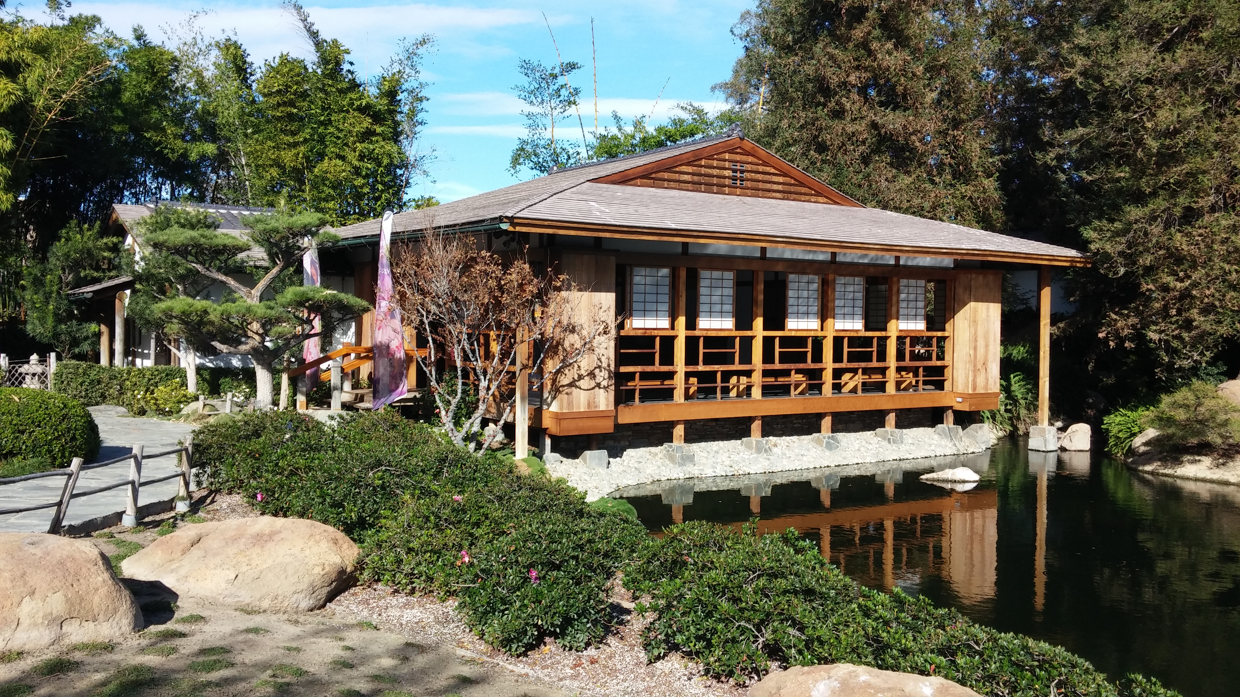 The Japanese Garden, Van Nuys, California